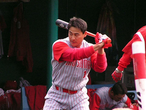 Tomonori Maeda, outfielder of the Hiroshima Toyo Carp, at Nichinan Tempuku Baseball Stadium.